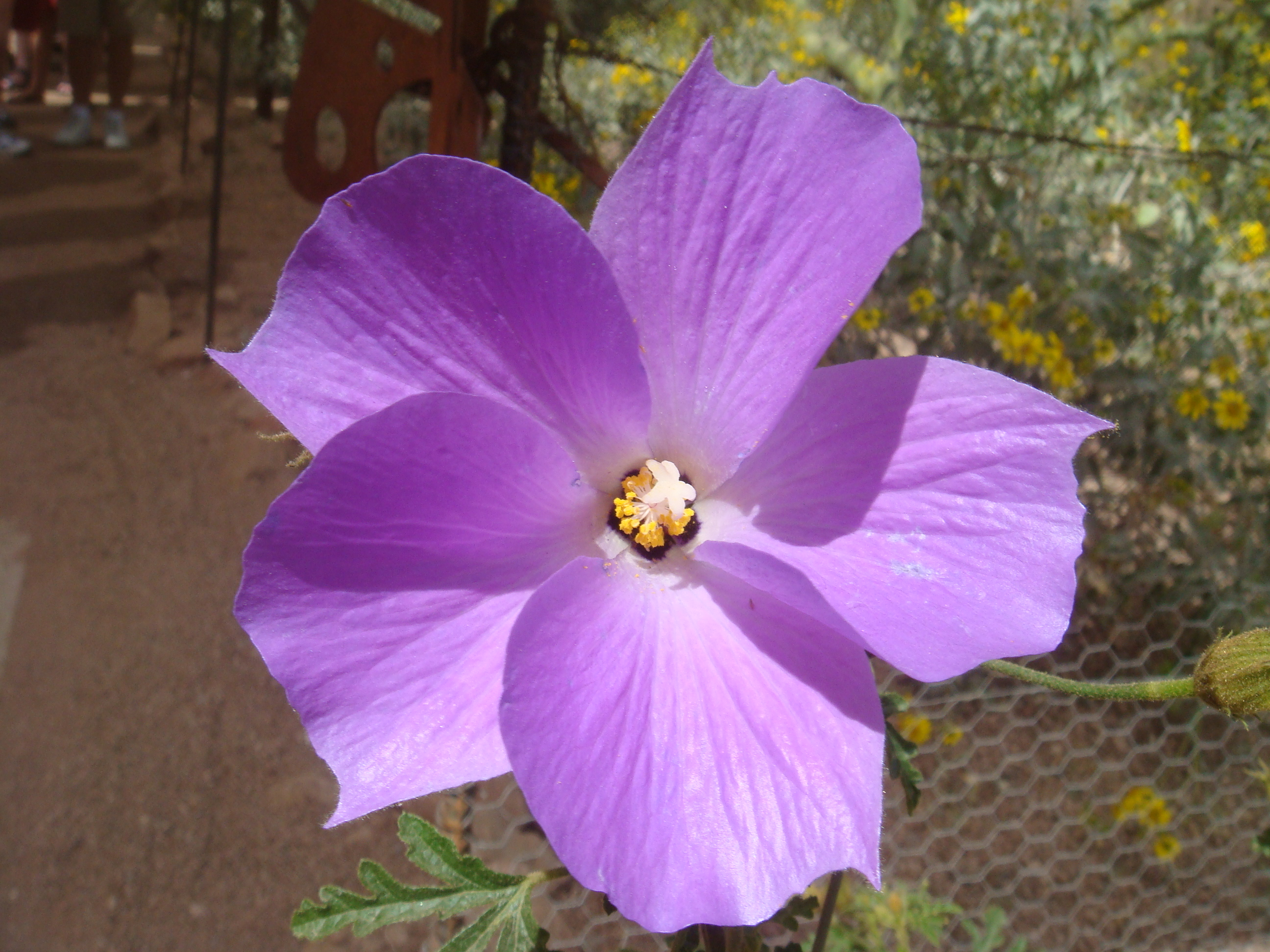 Alyogyne huegelii, cultivated, Desert Botanical Garden, Phoenix, Arizona